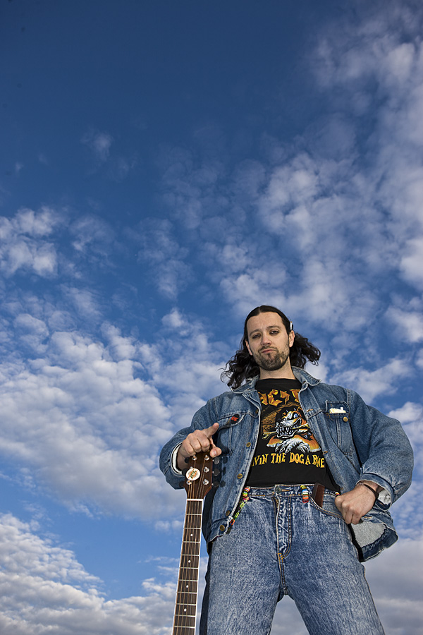 Michal Kavalčík, Ruda z Ostravy